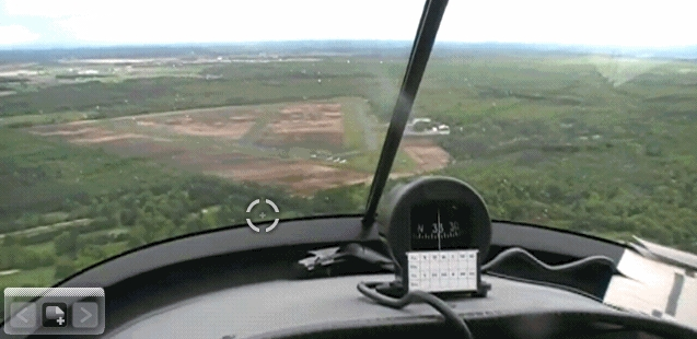 daniel scopel